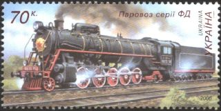 Stamp of Ukraine